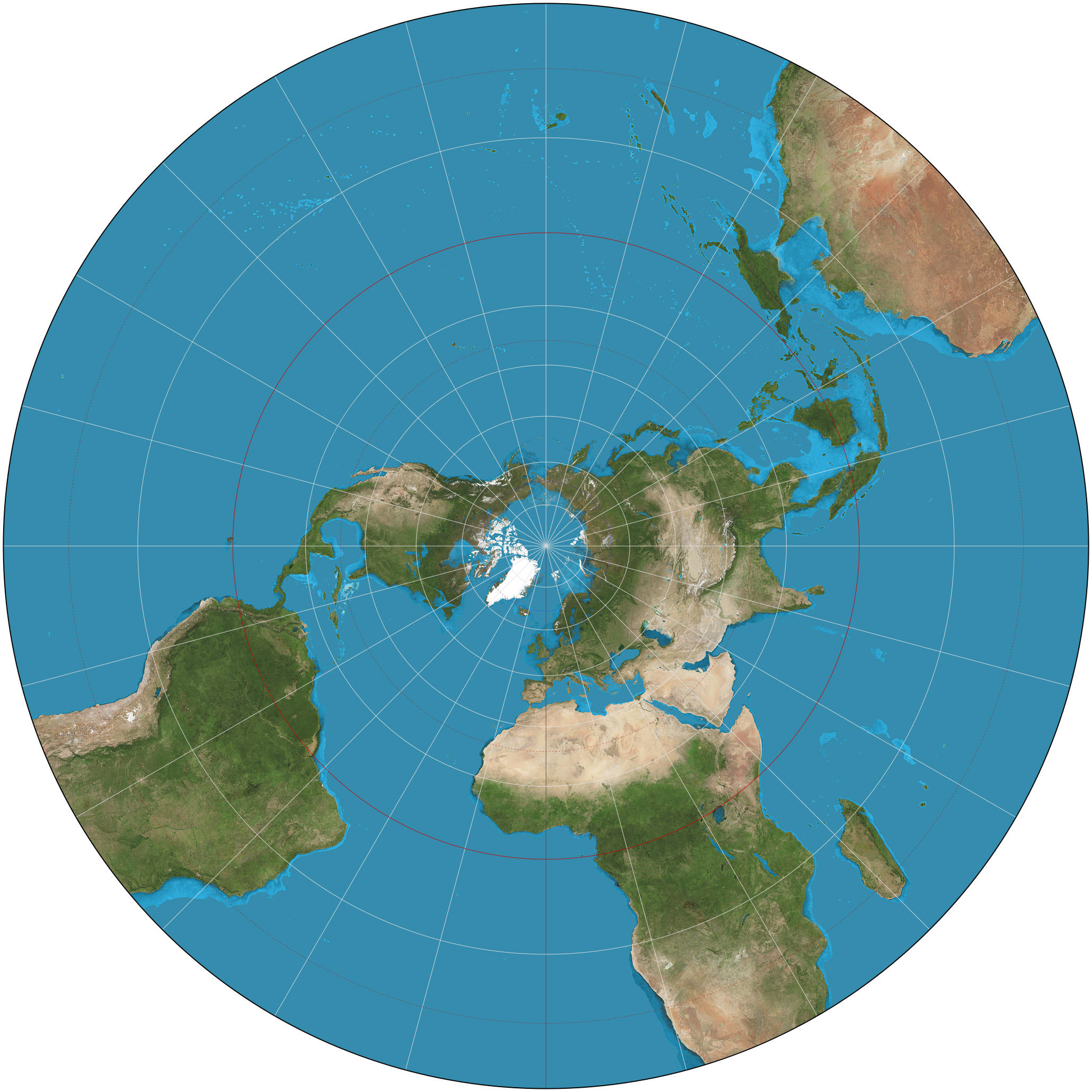 The world north of 30°S on the stereographic projection. 15° graticule. Imagery is a derivative of NASA’s Blue Marble summer month composite with oceans lightened to enhance legibility and contrast. Image created with the Geocart map projection software.